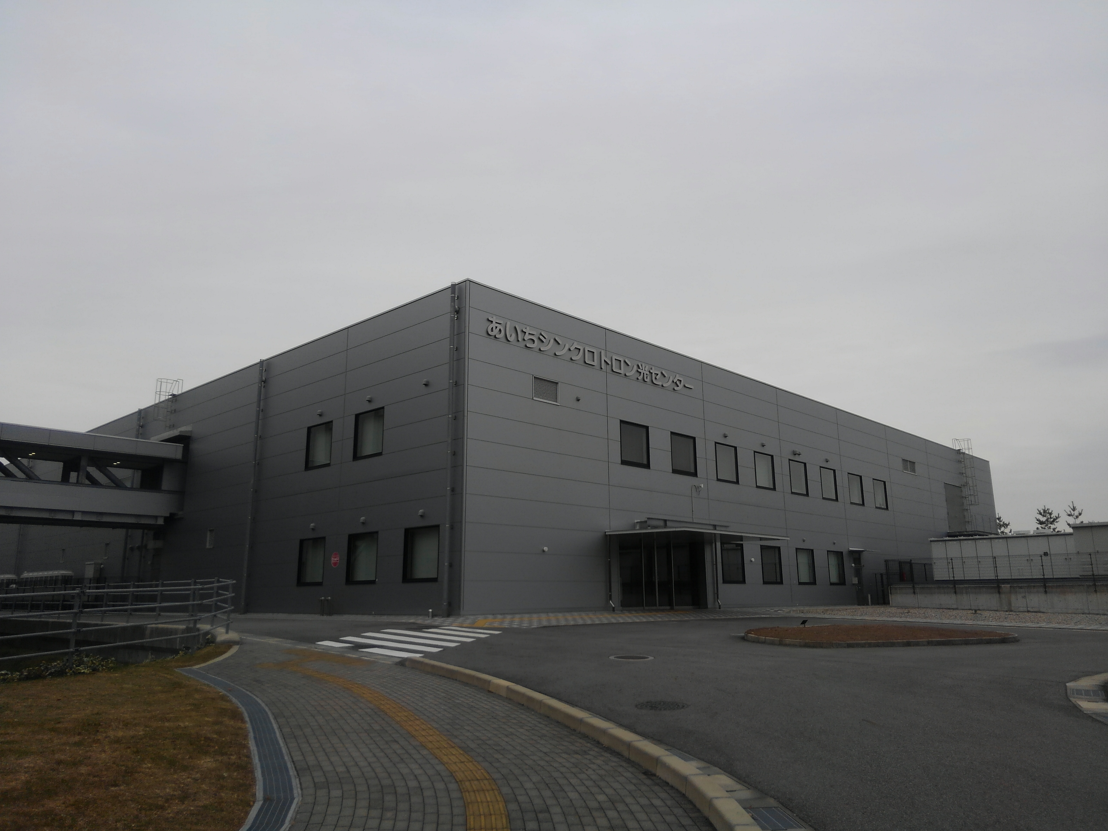 Aichi Synchrotron Radiation Center (AichiSR) in Seto, Aichi, Japan.